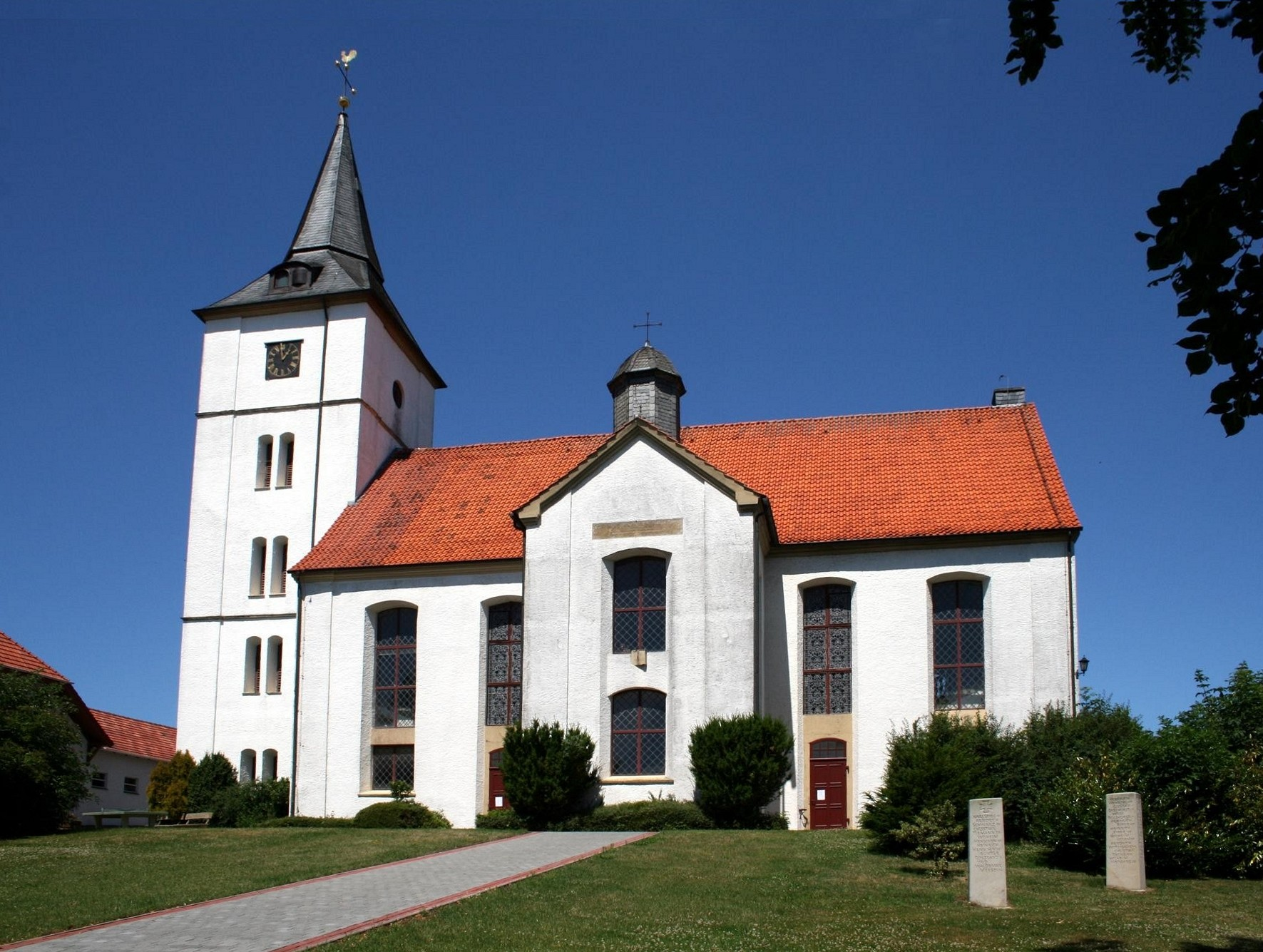 This image shows a heritage building in Germany, located in the North Rhine-Westphalian municipality Stemwede (no. 003).